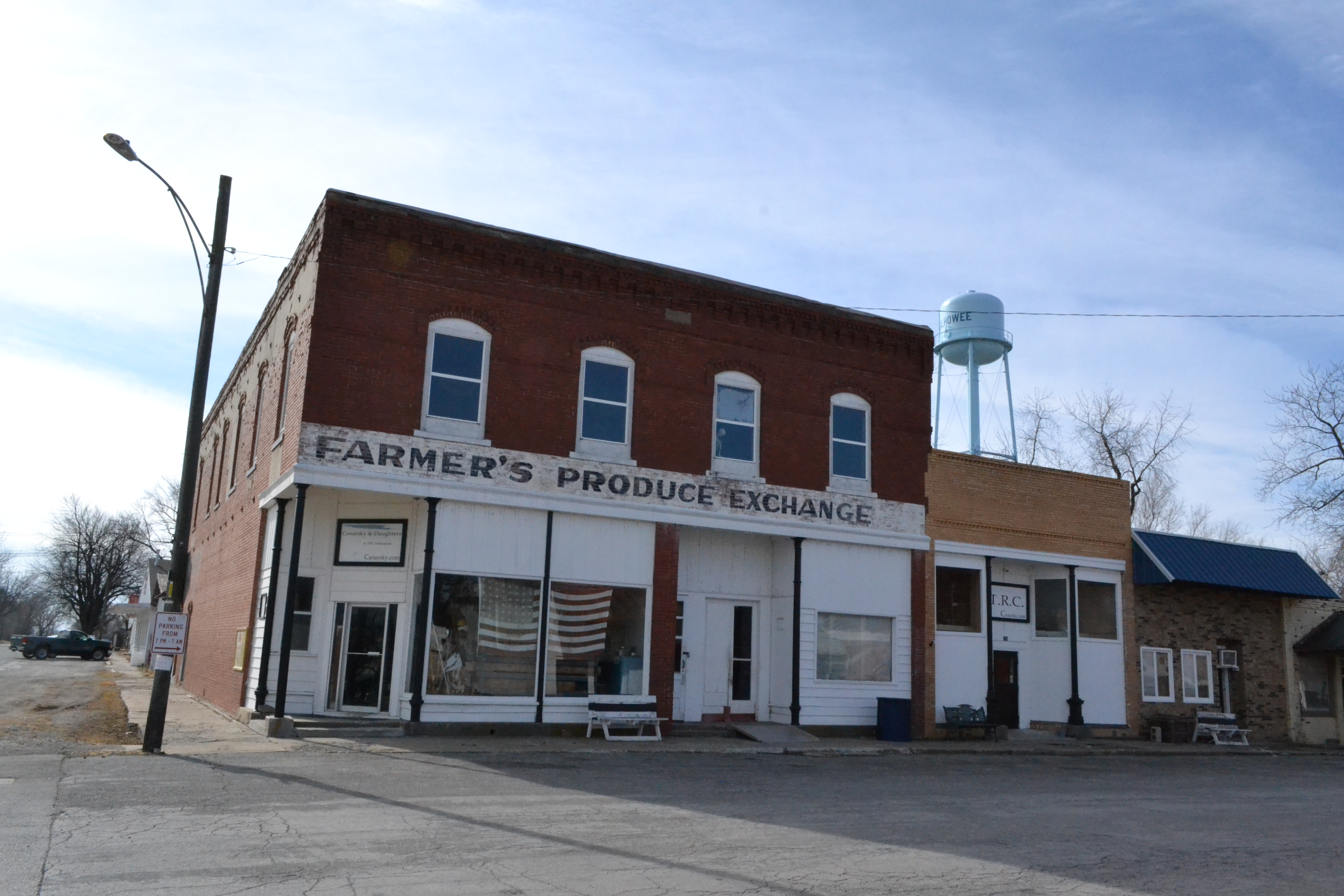 The Farmers Produce Exchange Building, 118-120 E Walnut, Chilhowee, Missouri. Contributing buildings to the Chilhowee Historic District